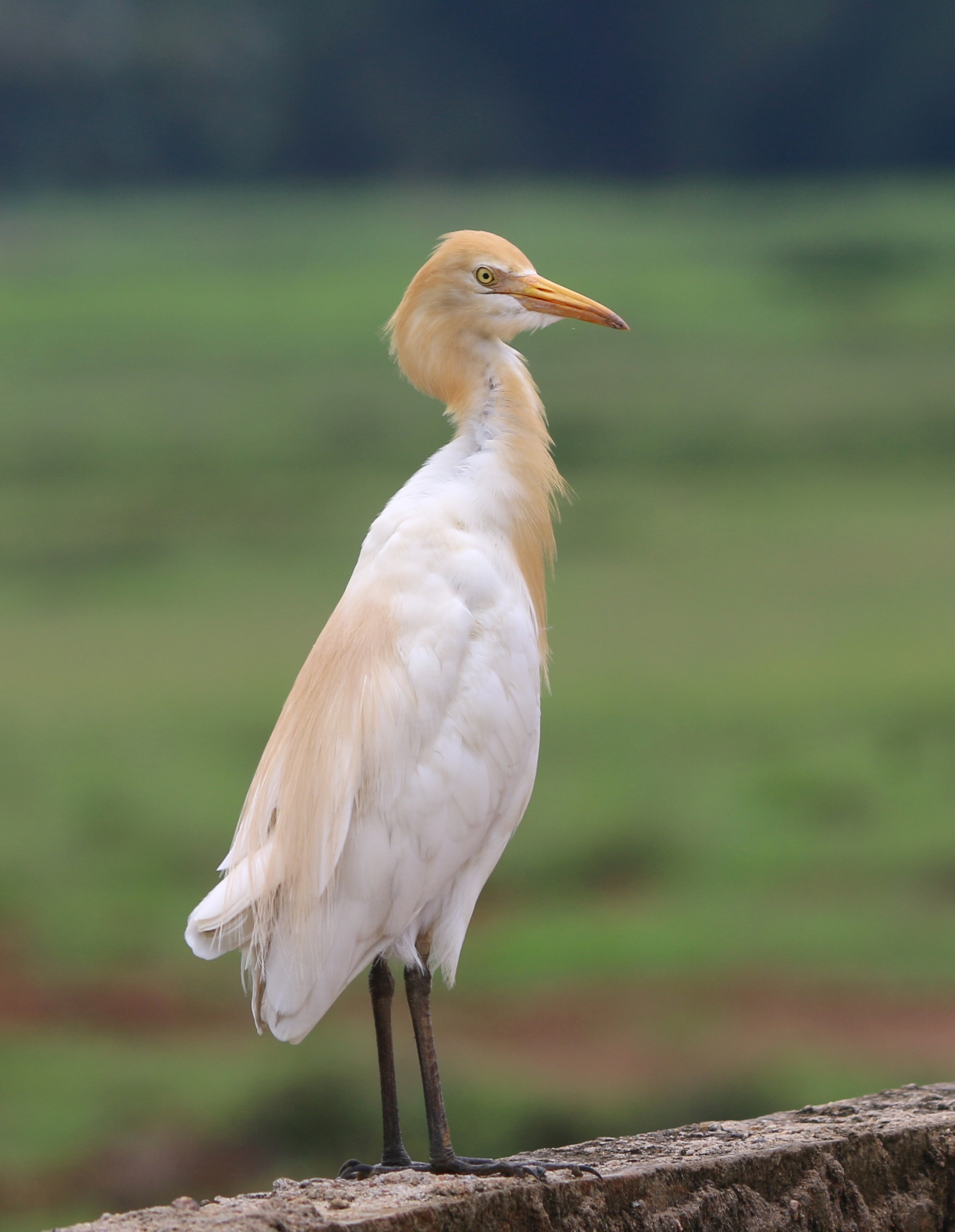 Cattle egret in breeding plumage